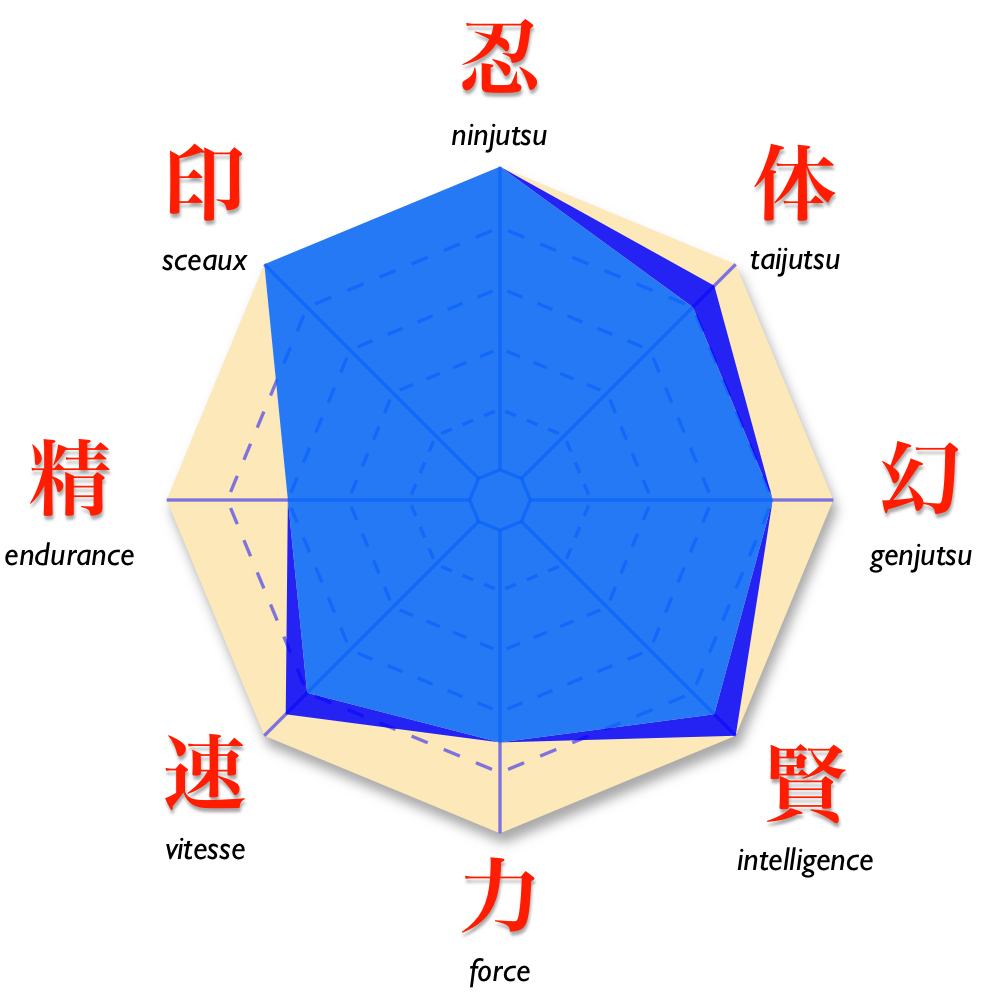 "Naruto" manga - Character "Kakashi" - Capabilities evolution diagram from Official Databooks data